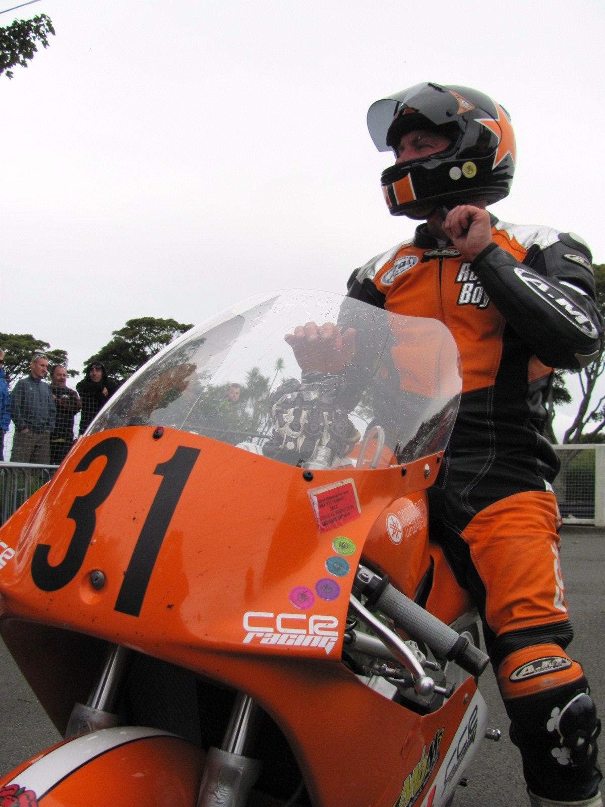 Manx Grand Prix 2012 Date: 31st August 2012 Source : Agljones at en.wikipedia Permission See below